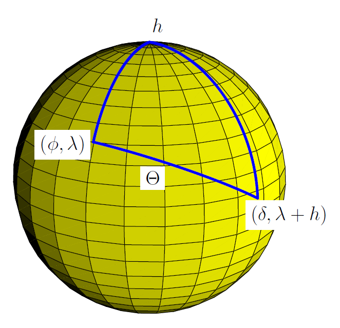 To demonstrate application of spherical law of cosines for the calculation the solar zenith angle θs for observer at latitude φ and longitude λ from knowledge of the hour angle h and solar declination δ. (δ is latitude of subsolar point, and h is relative longitude of subsolar point).